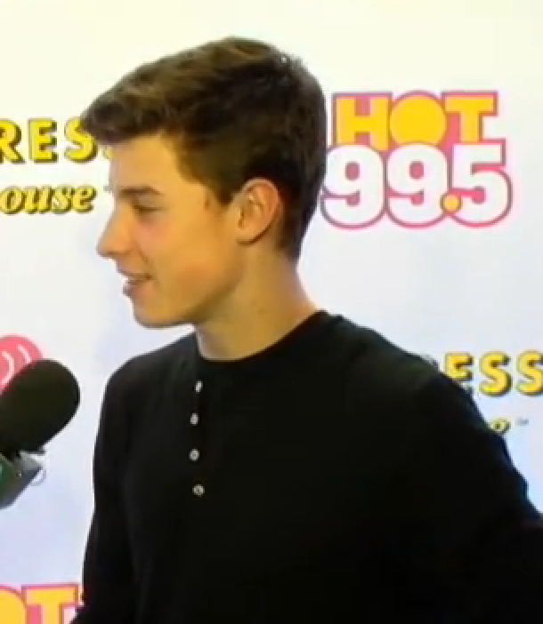 Border Crossings host, Larry London was backstage at the iHeartRadio annual Jingle Ball concert and he talked with Shawn Mendes about his upcoming projects.